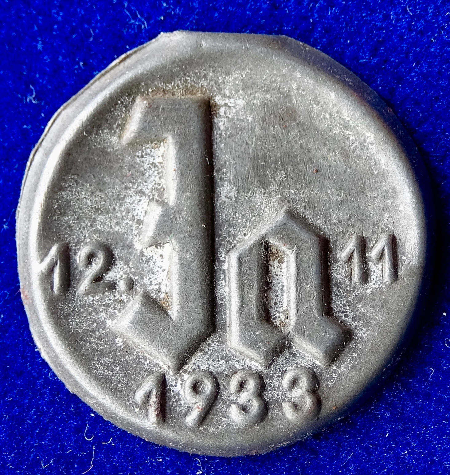 Nazi German Parliamentary Election, 12 November 1933 Token Medal Fe- medallion, d. = 26 mm. "Ja" between date "12 11 1933"/ uniface.